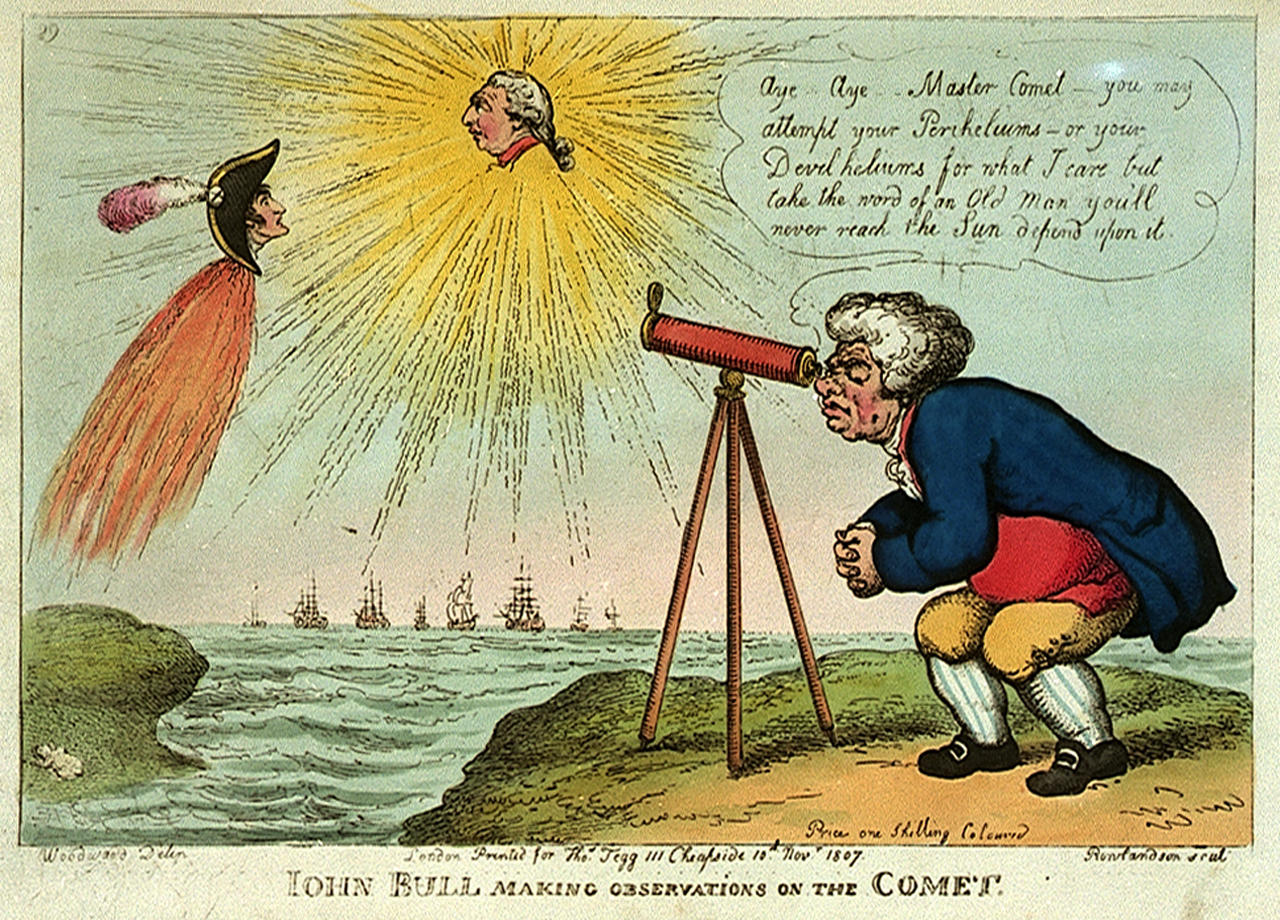 John Bull making observations on the Comet (caricature) John Bull, the spirit of Britain and its people, looks through his telescope to see a comet with Napoleon’s head rising towards the Sun containing the head of King George III. The land it has come from has a small frog on it. Spying the French leader, John Bull mocks him, saying, ‘Aye - Aye - Master Comet - you may attempt your Periheliums - or your Devil heliums for what I care but take the word of an Old Man you'll never reach the Sun depend upon it’. Published on 10 November 1807, the print was produced while a comet was visible from England at the end of that year. John Bull making observations on the Comet (caricature)